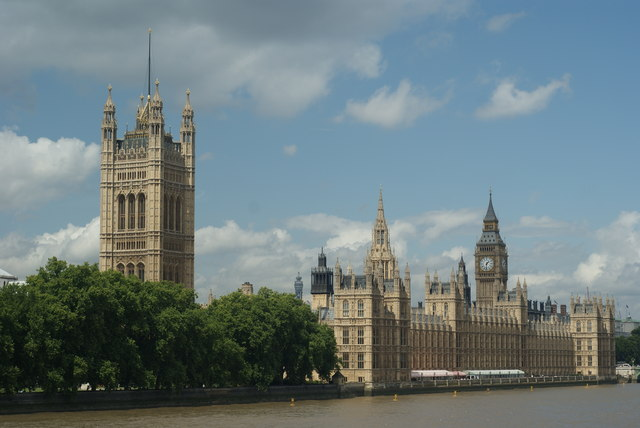 Houses of Parliament, London View of Victoria Tower to the left, and the Houses of Parliament and Big Ben to the right. Even though this picture is taken from just outside the grid square, I think that this is about the most pleasing daytime view of the Houses of Parliament.